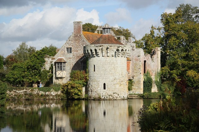 Scotney Castle Late 14th century drum tower and Elizabethan south wing of old Scotney Castle